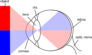 Diagram of the eye that I made with sodipodi